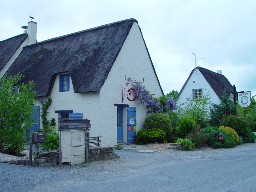 Hotel Mare aux Oiseaux 3-5-2005